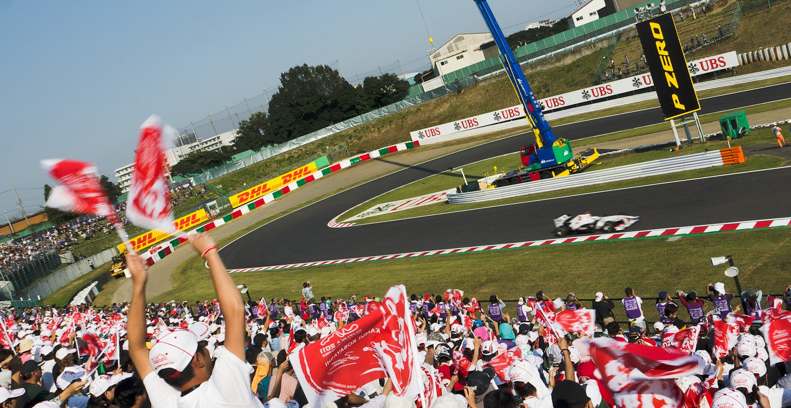 Formula One 2011 Rd.15 Japanese GP: Kamui Kobayashi (Sauber) and his supporters.